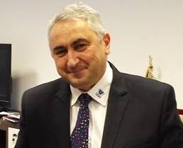 Fernando Peña with Valentin Popa after the signing of an international agreement with Universidade da Coruña